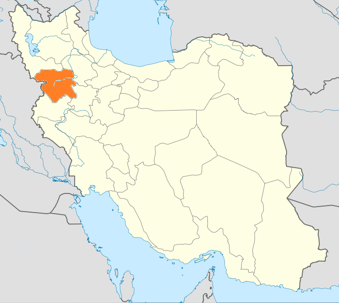 Locator map of Iran